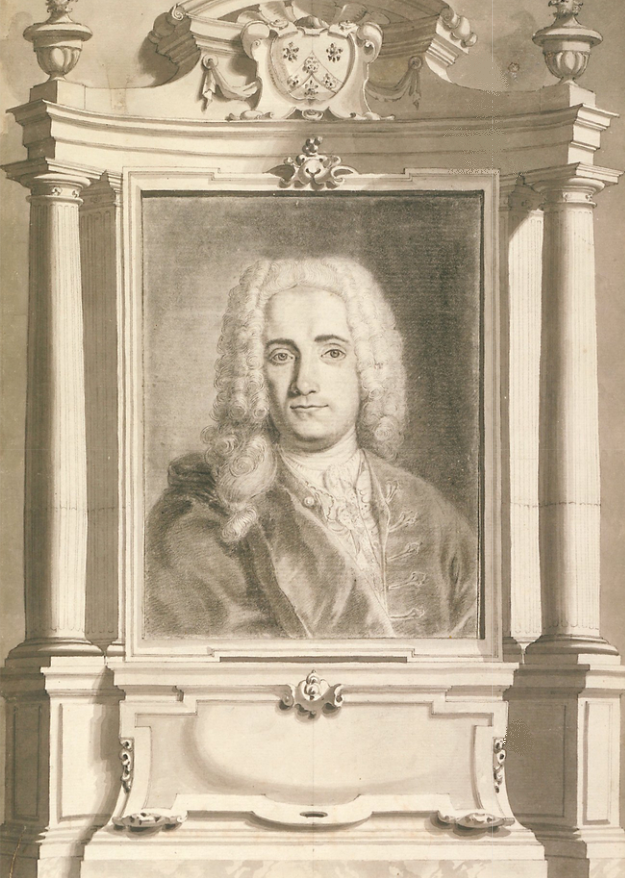 Portrait of Giambattista Pittoni, Venice